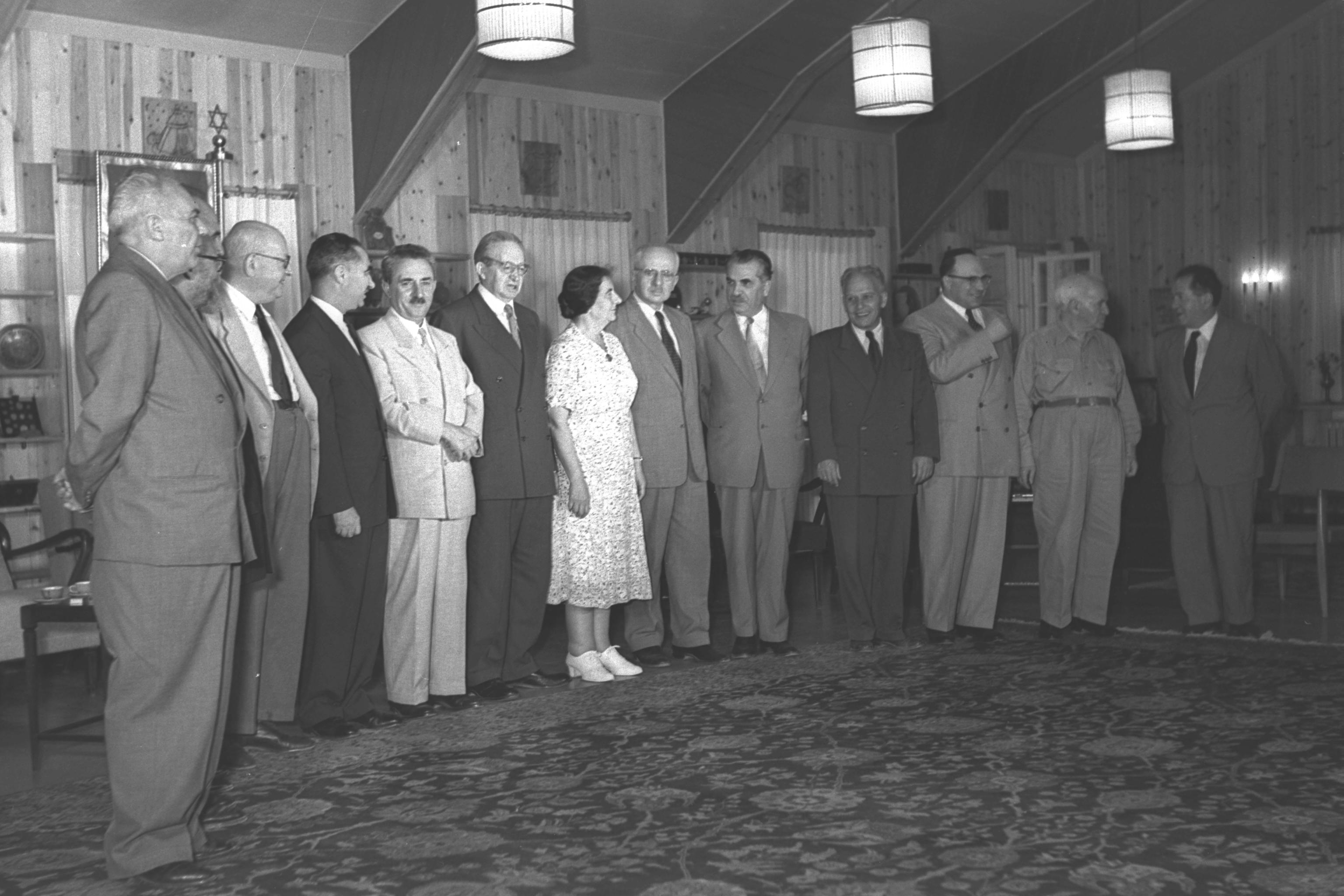 Israel's sixth Government. L.TO R. Z.ARANNE,DINUR,L.ESHKOL,P.NAPHTALI,D.YOSEF M.SHARETT,PRES.BEN ZVI,G.MEIR,P.ROSEN,SHAPIRA,SHITRIT,BURG BECHOR SHITRIT, YOSSEF BURG, D.BEN GURION AND ZE'EV SCHARF.